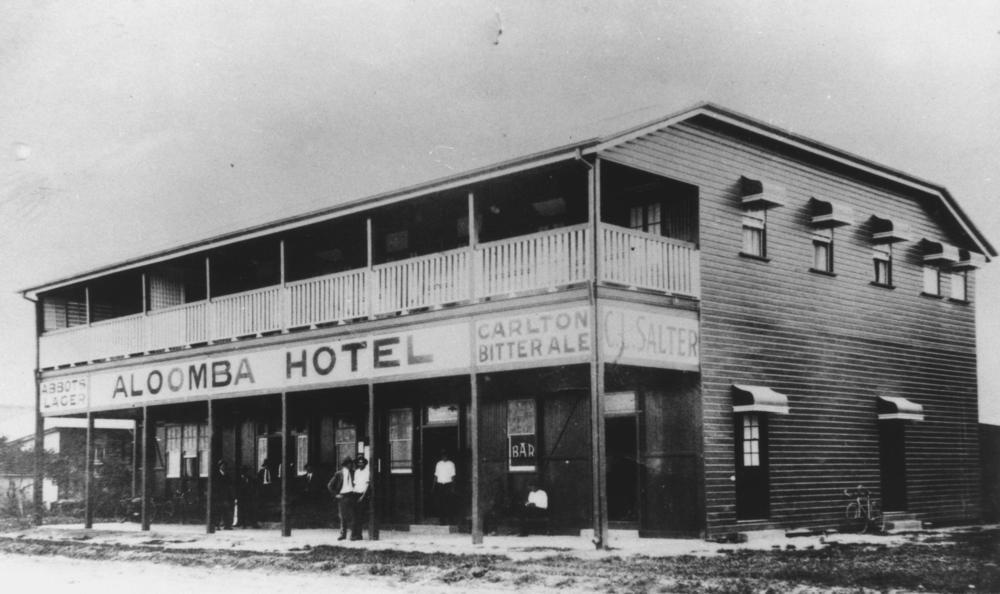 Aloomba Hotel, Aloomba, Queensland, Australia circa 1925